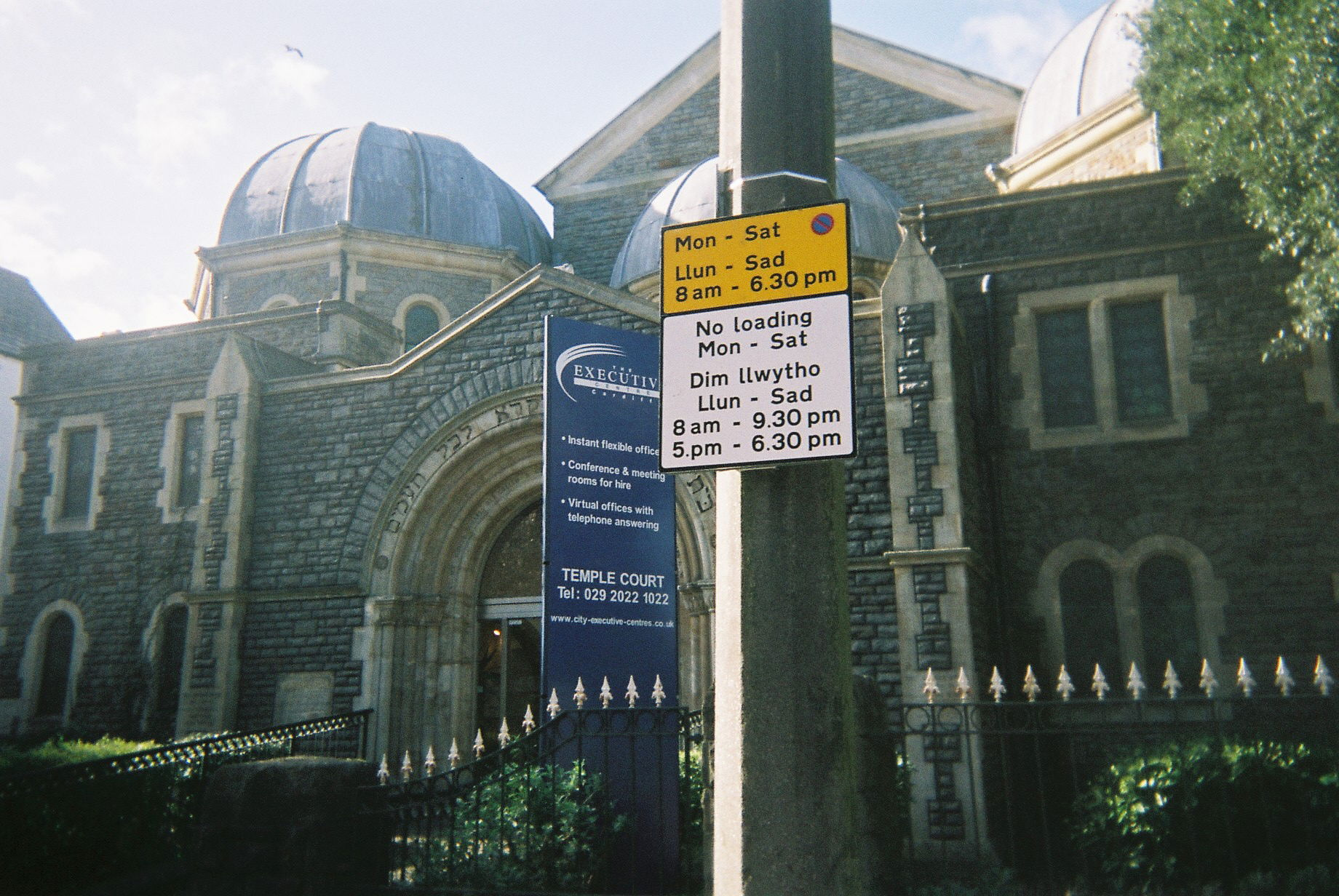 Welsh and English signs and a Hebrew inscription outside Temple Court, Cathedral Road, Cardiff, Wales. Temple Court was built as Cardiff United Synagogue but is now a secular office building.